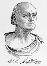 Senator Wilson C Nicholas of Virginia